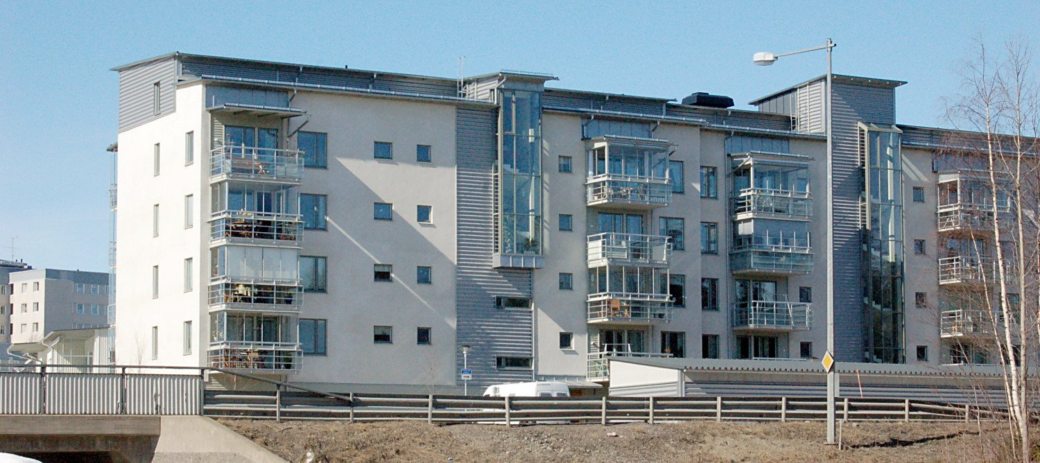 Mariestrand, Mariehem, Umeå, Sweden.